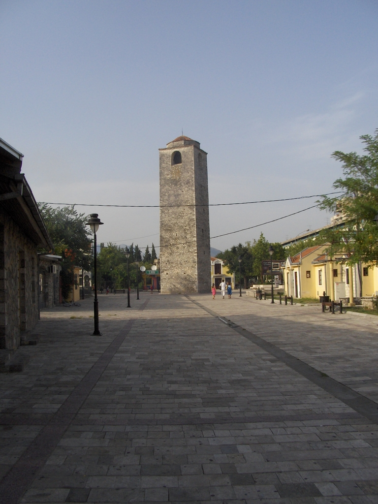 Sahat-kula, an Ottoman clock tower in Podgorica, Montenegro.